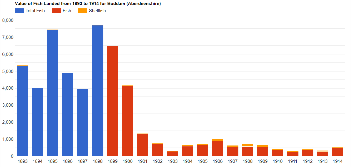 Value of fish landed in Boddam 1893-1914